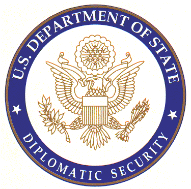 Diplomatic Security Great Seal